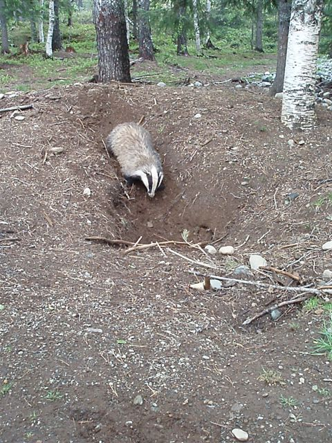 European Badger (Meles meles) (no: Grevling) from Namsskogan wildlife park, Norway